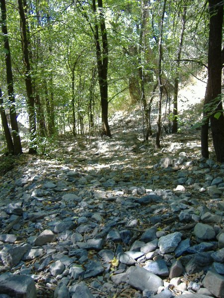 Here Ute Indian women and children tried to hide from the Mormon Militia by taking cover in the icy cold mountain stream water. Battle Creek has since been diverted upstream from the attack site. Its water is now used for culinary purposes by the residents of Pleasant Grove, Utah.